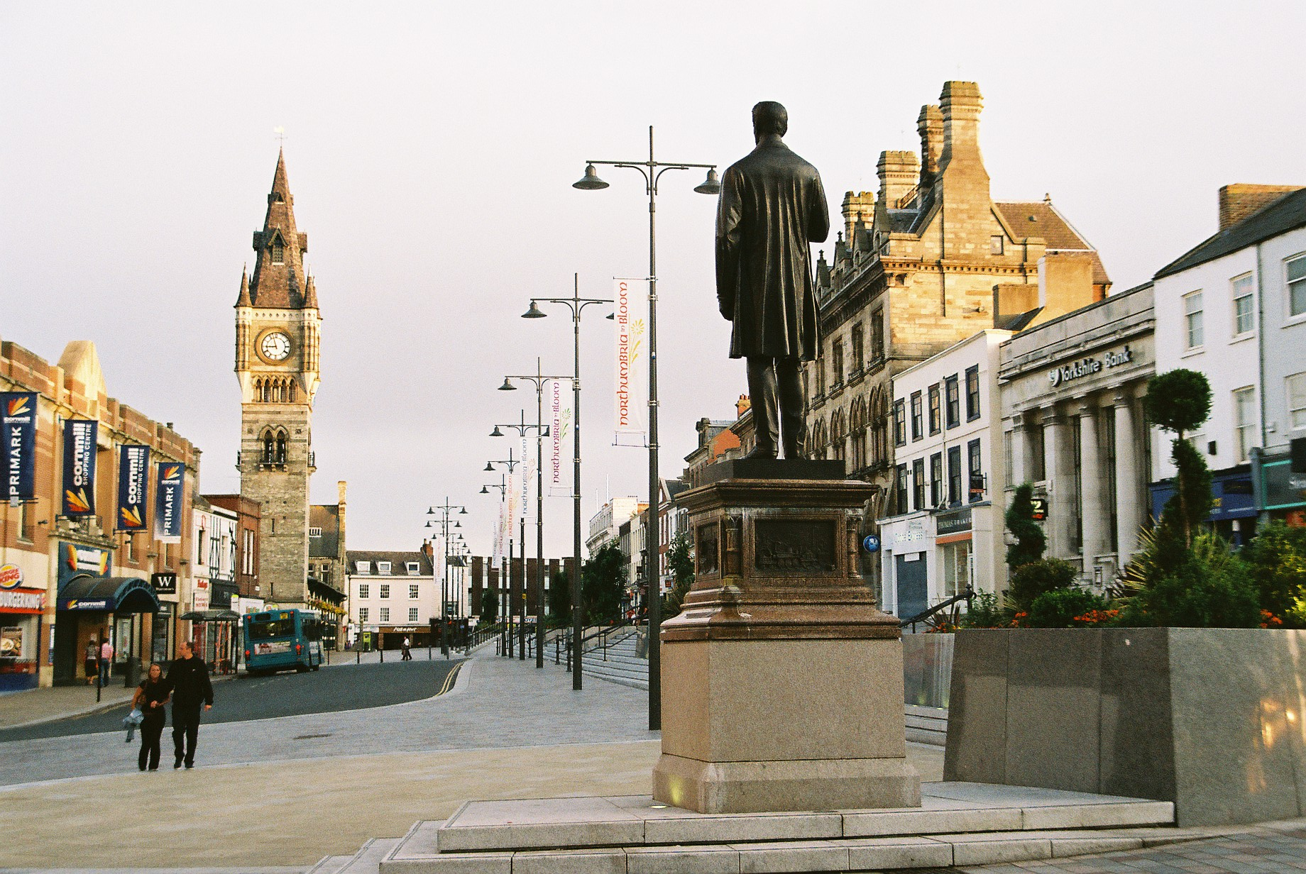 Darlington town centre